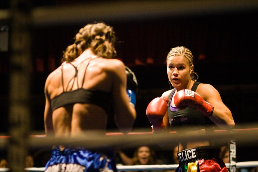 MMA Fighter Felice Herrig (right) in a match with Emily Bearden (left) at Muay Thai Mayhem XIV in New York City on June 16, 2009.